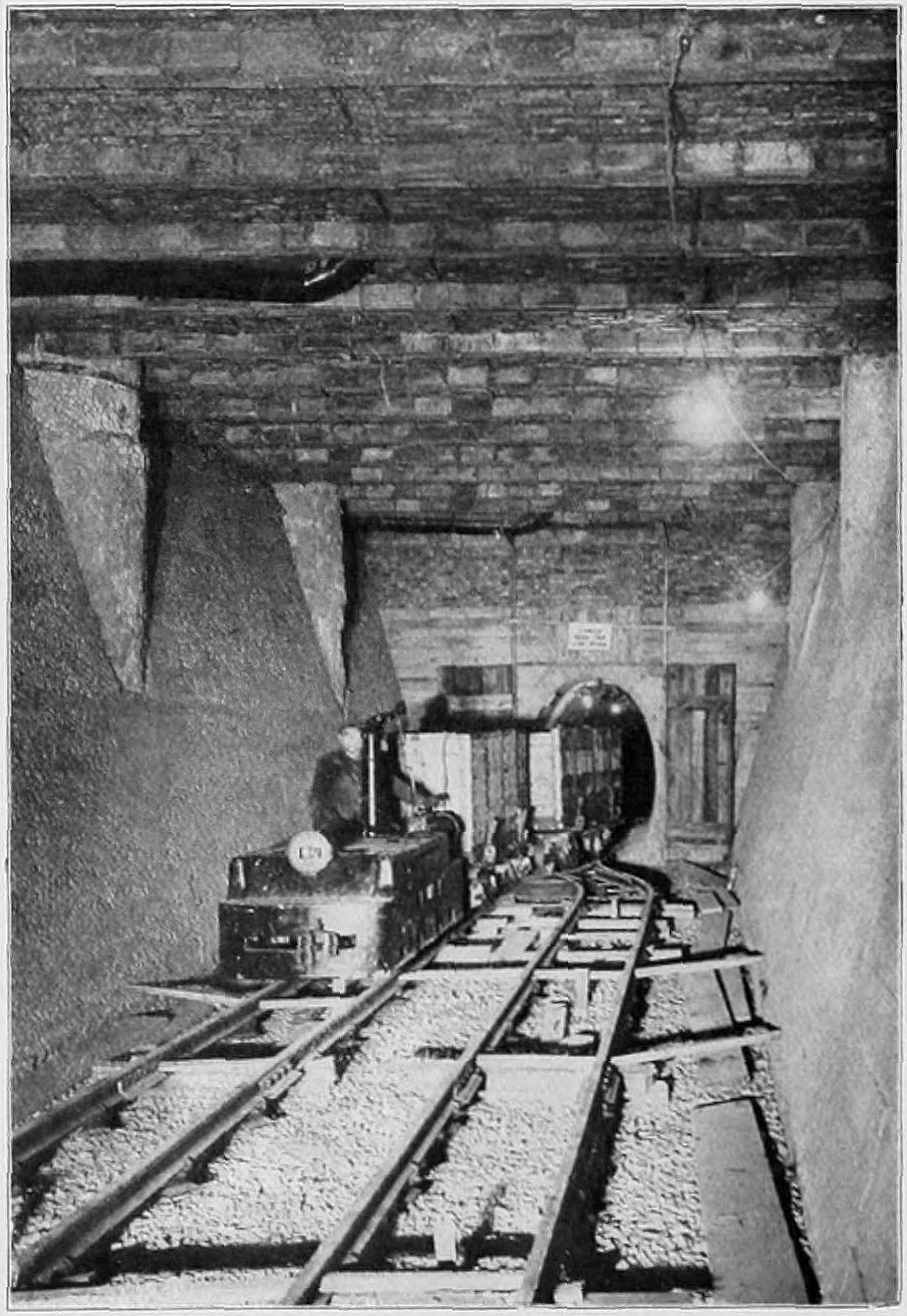 Original caption: "ENTRANCE TO MARSHALL FIELD & COMPANY'S TUNNEL BASEMENT, SHOWING TYPE OF ELECTRIC MOTOR USED". This photo also appears in Bruce Moffat, Forty Feet Below, Interurban Press, 1982, page 27, with the caption: "... Jeffrey Locomotive 130, looking toward State Street just after the floor was lowered to meet the tunnel grade." This photo is obviously posed -- there are no overhead wires in place yet to power the locomotive.